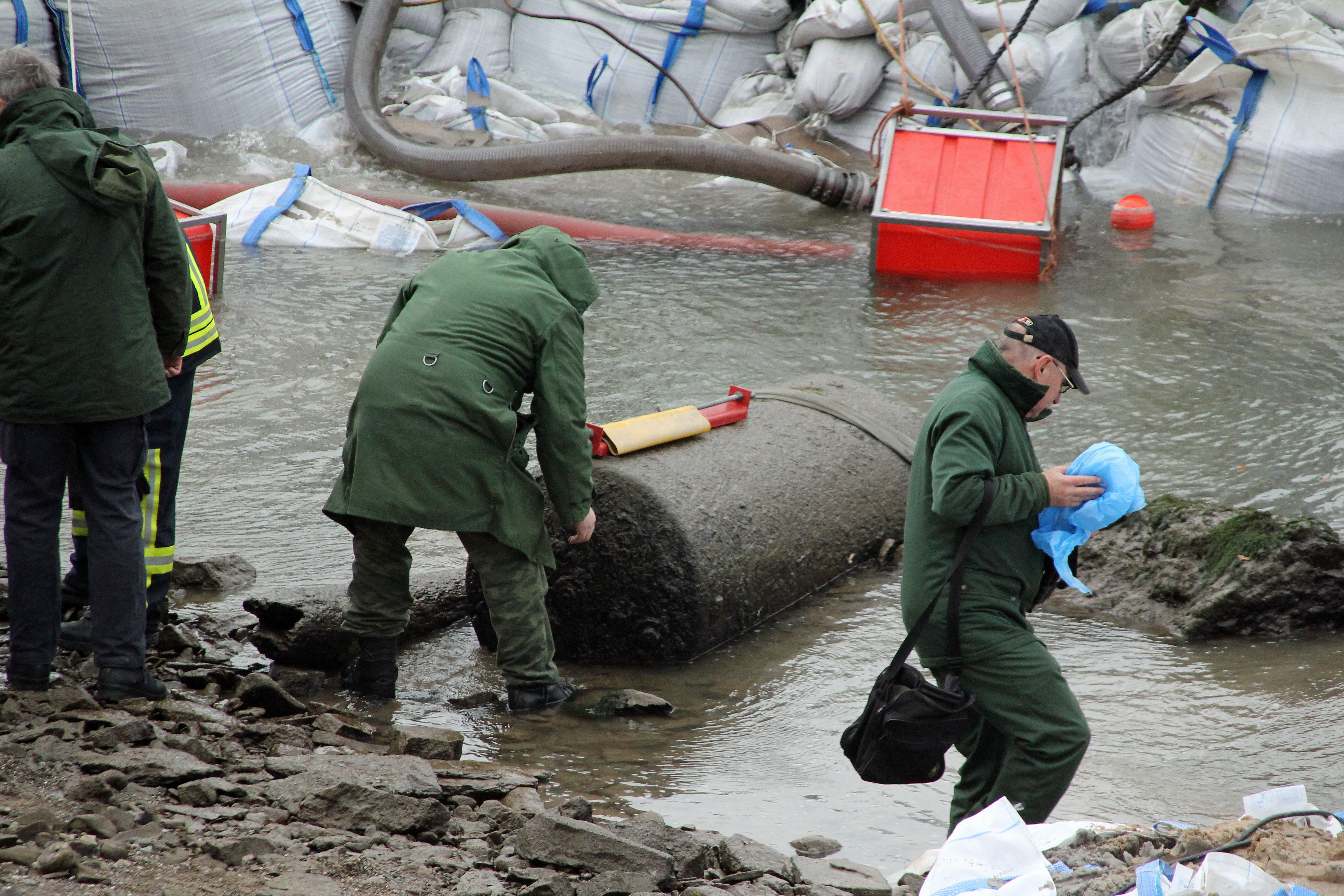 British WW2 Air-dropped bomb found in Koblenz